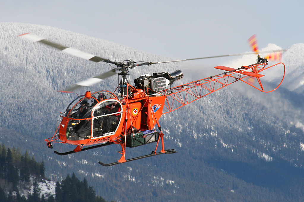 A 1974 built SA 315B Aérospatiale Lama helicopter